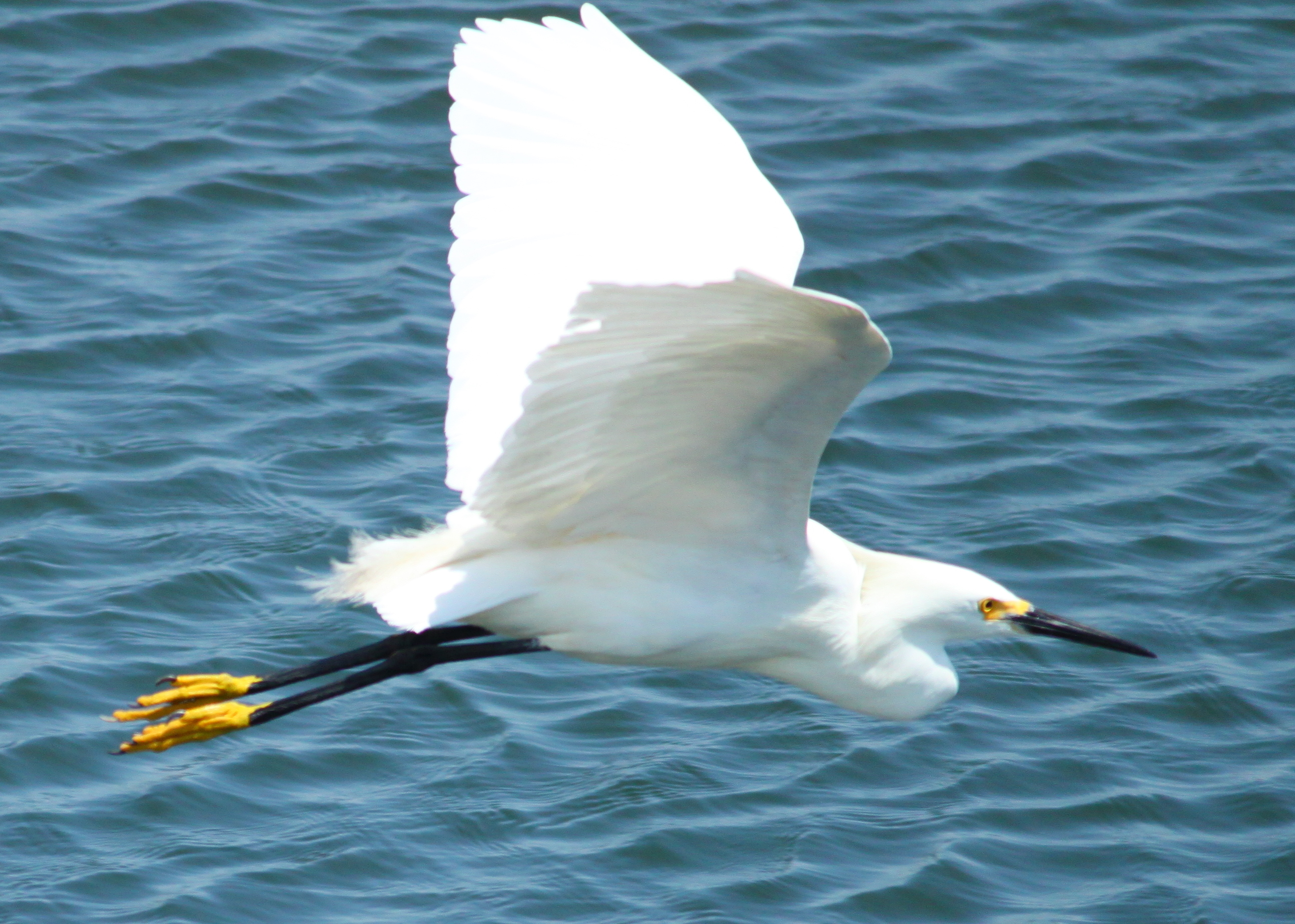 A Snowy Egret at the Bolsa Chica Conservancy near Huntington Beach, California